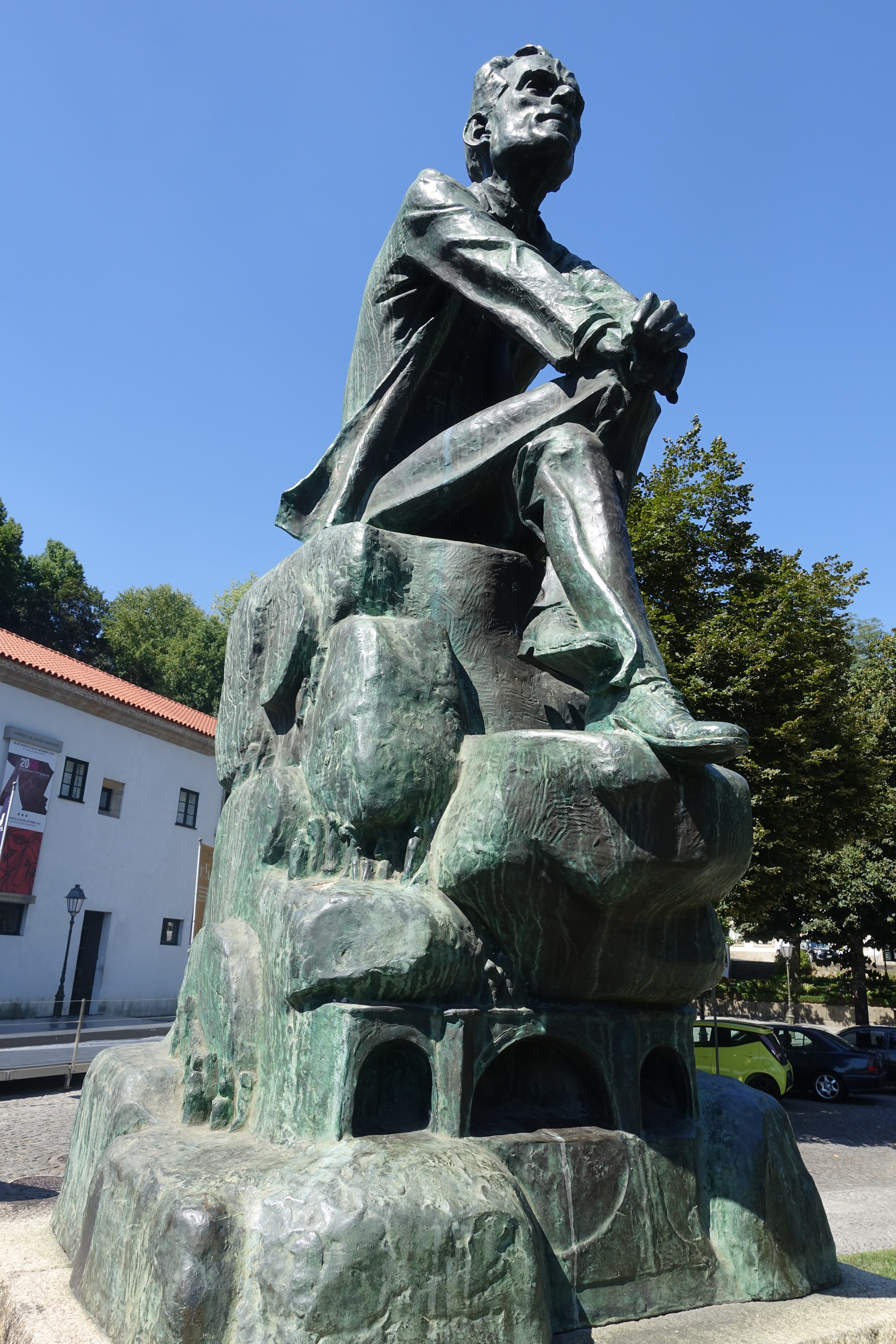 Teixeira de Pascoaes statue in Amarante, Portugal.